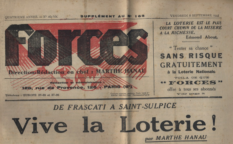 Title page (crop image) of Forces, weekly periodical edited bay Marthe Hanau, Paris.